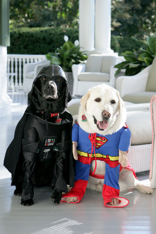 Vice President Dick Cheney's Labrador retrievers Jackson, left, and Dave, right, prepare for Halloween, Tuesday, Oct. 30, 2007, as they sit for a photograph at the Vice President's Residence at the Naval Observatory in Washington, D.C. Jackson is dressed as Darth Vader, Dave is dressed as Superman.